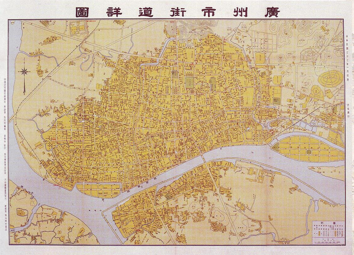 Map of Canton in 1948.